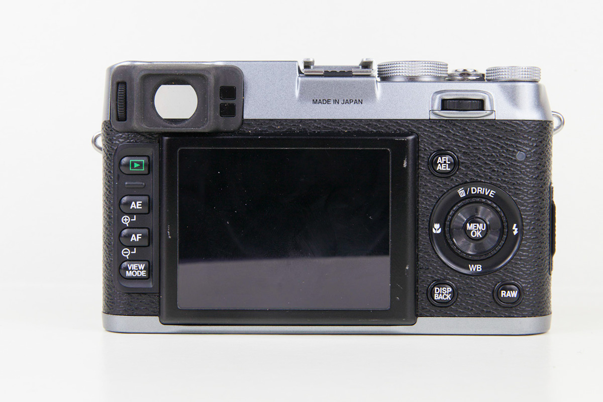 Fujifilm X100, Ansicht hinten